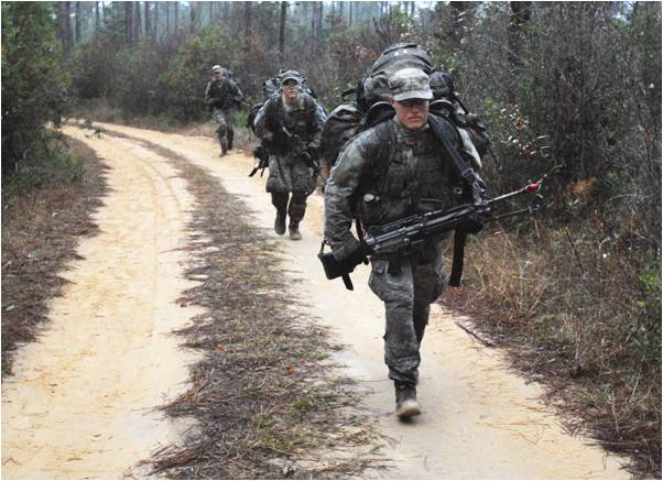 A U.S. Army student in his final week of U.S. Army Ranger School, travel a short distance on a dirt path before veering back into the forested swampland of Auxiliary Field Six at Eglin Air Force Base, Fla. His platoon hiked nearly eight kilometers through the swamp to reach their objective.